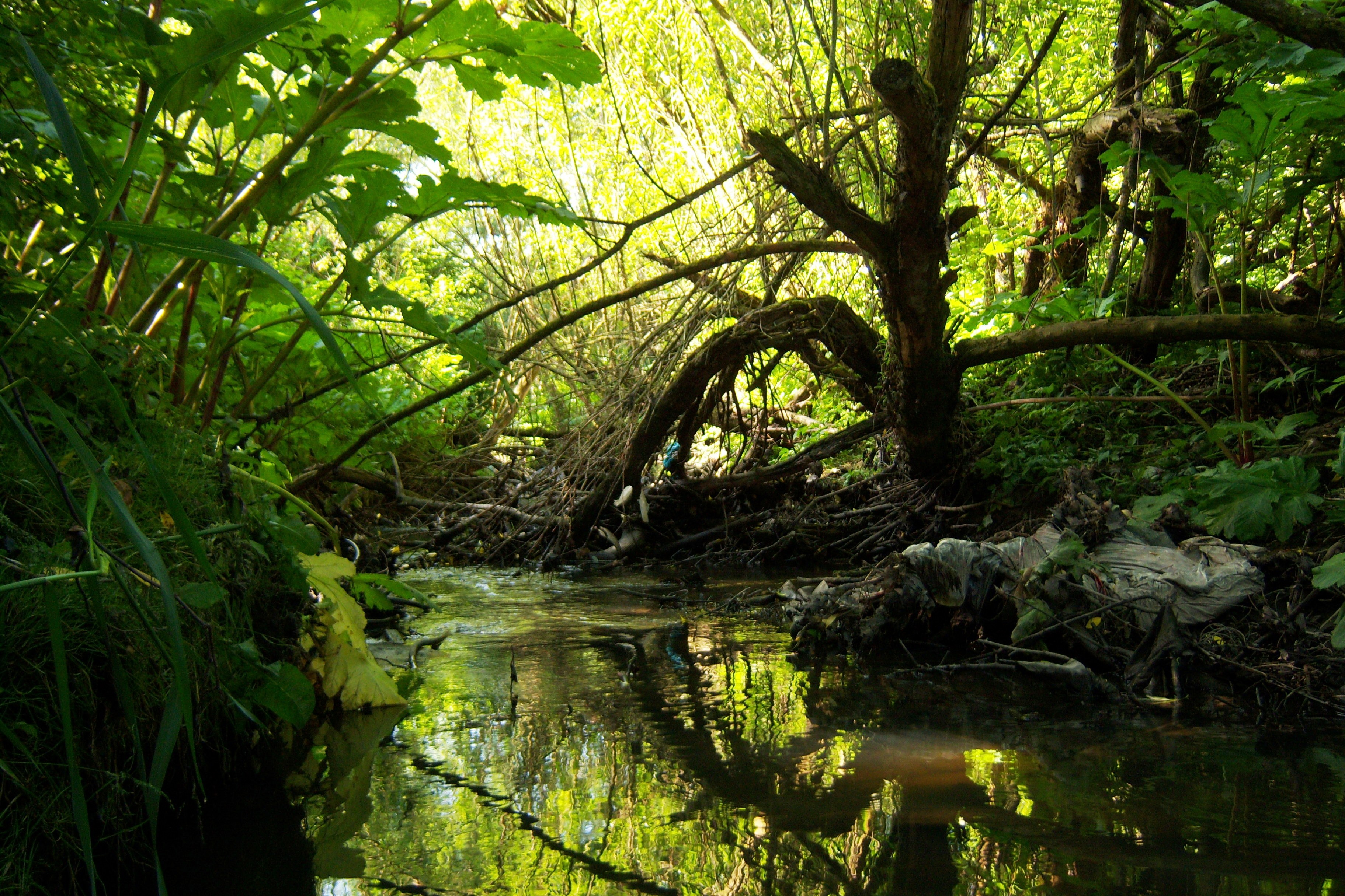 Amalė River in Kaunas, Lithuania